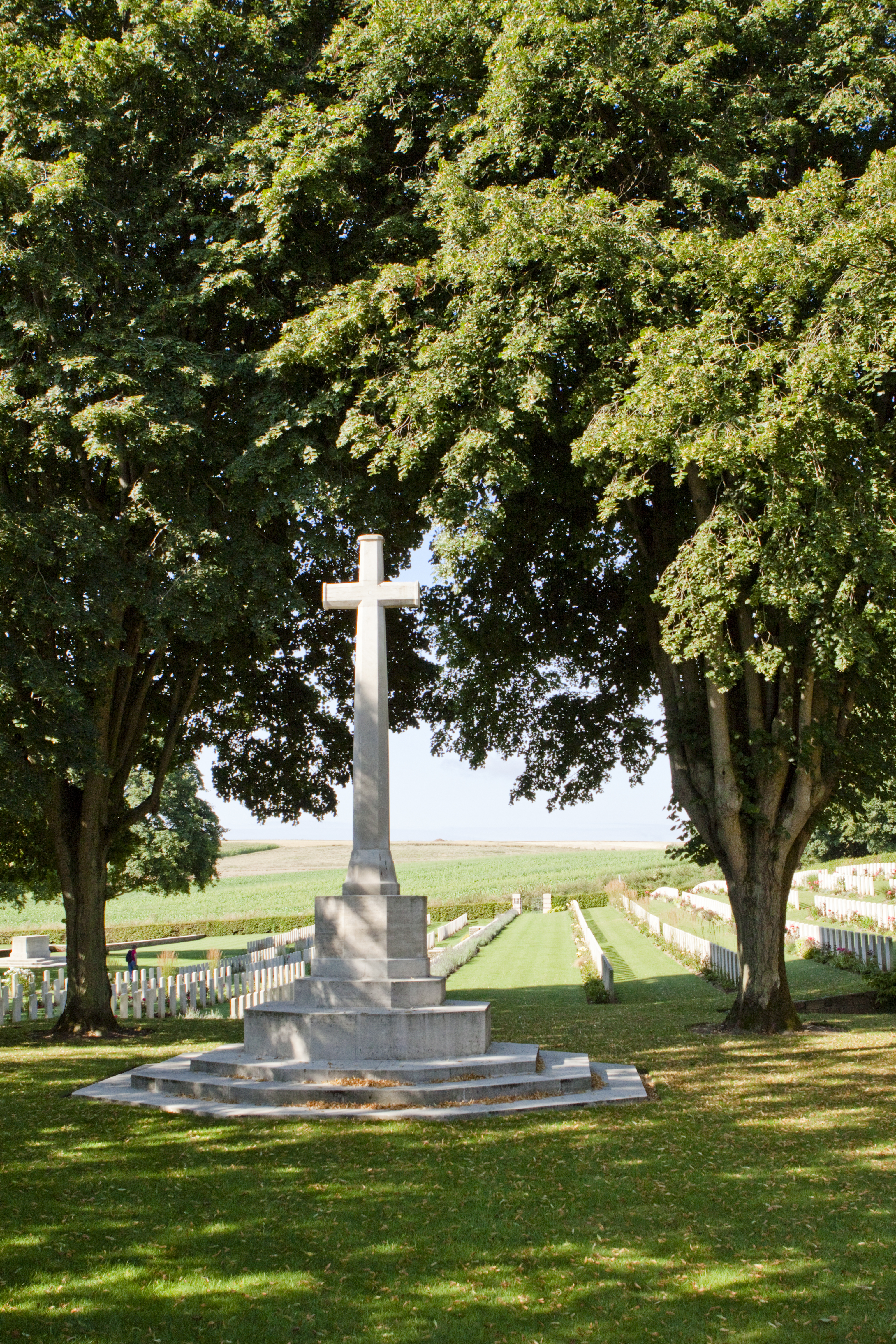 Contay British Cemetery